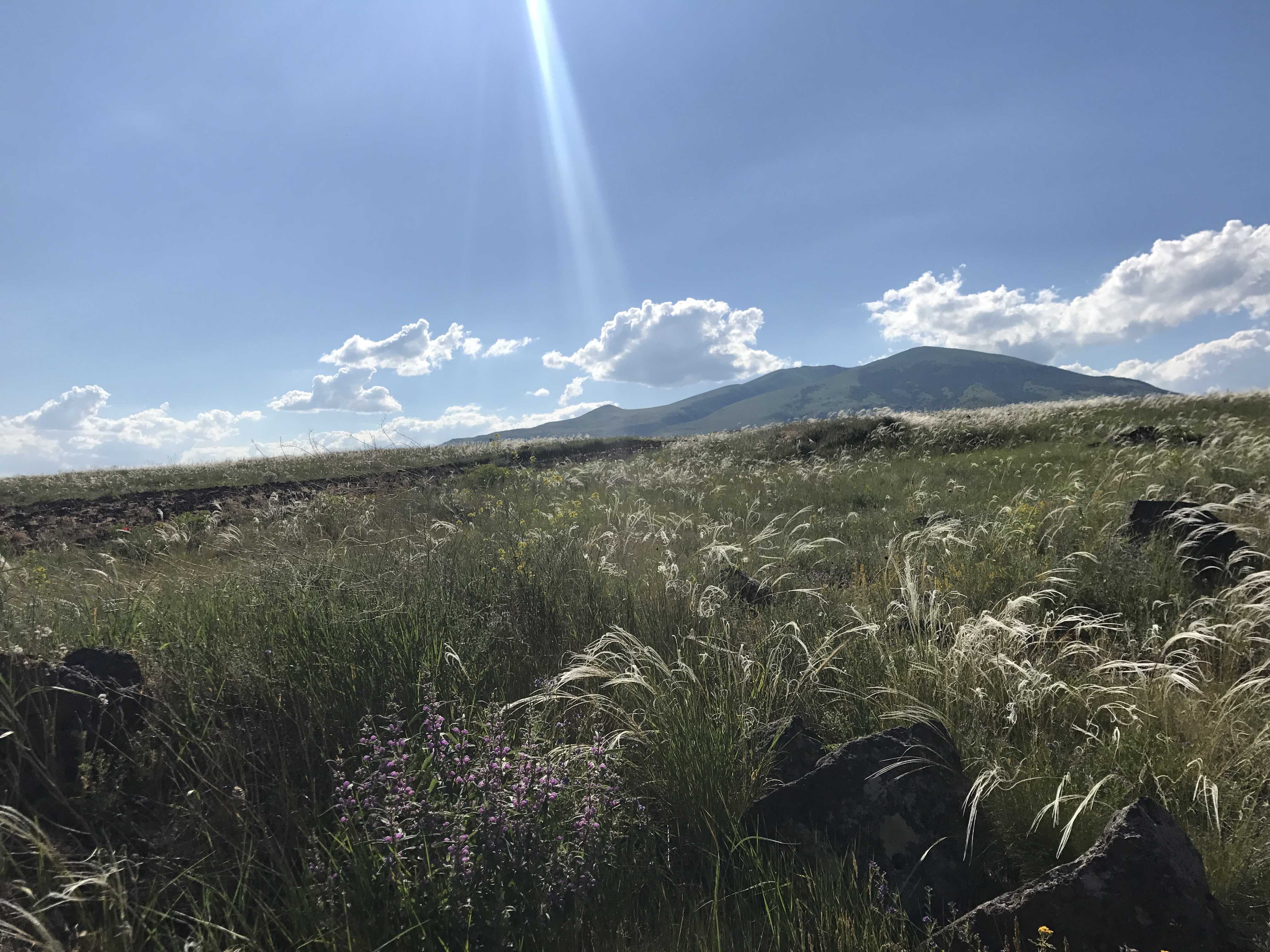 Beautiful Armenian highlands of Aragyugh.